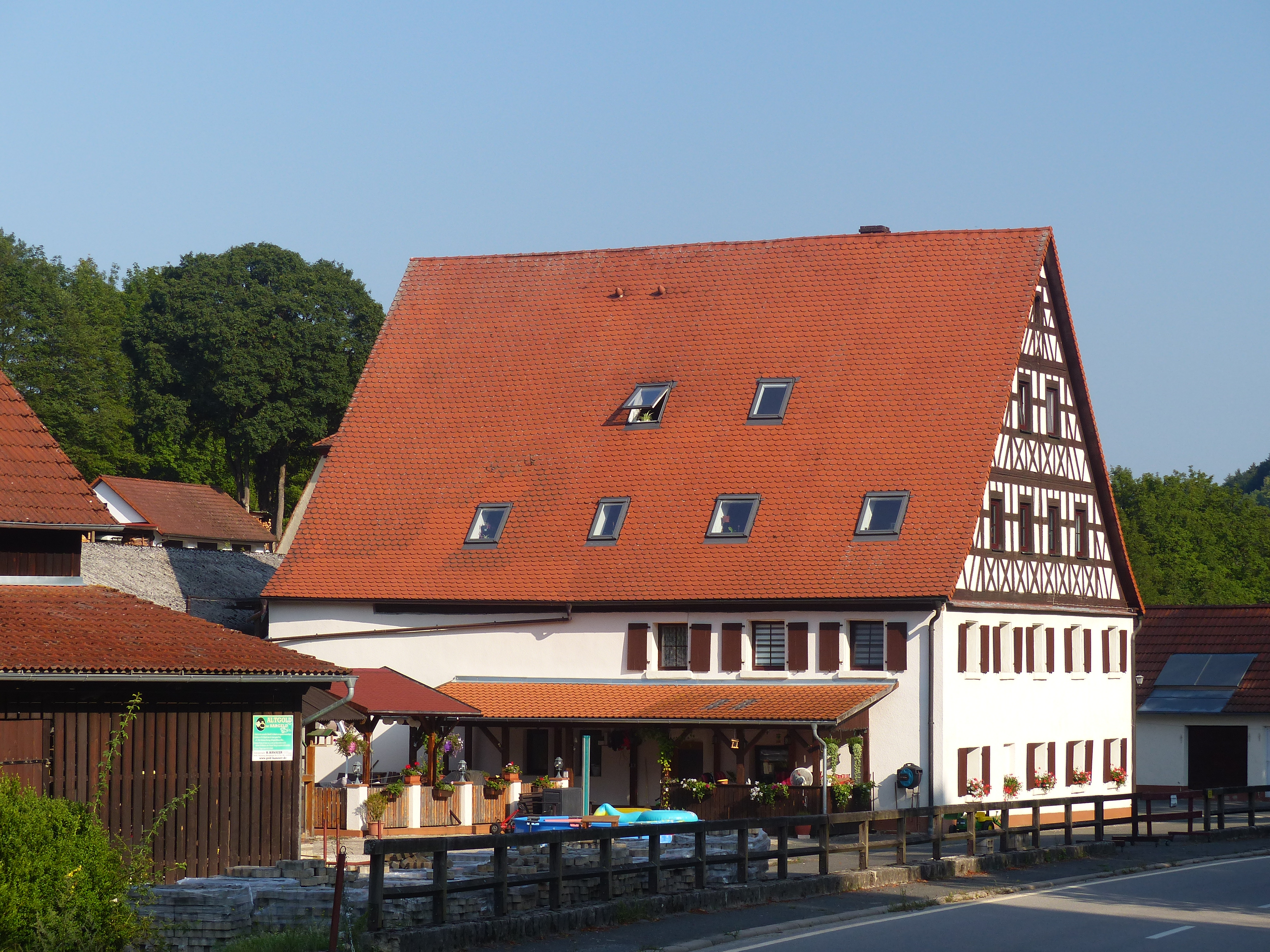 A mill in the solitude Hammermühle, a district of the municipality of Egloffstein.